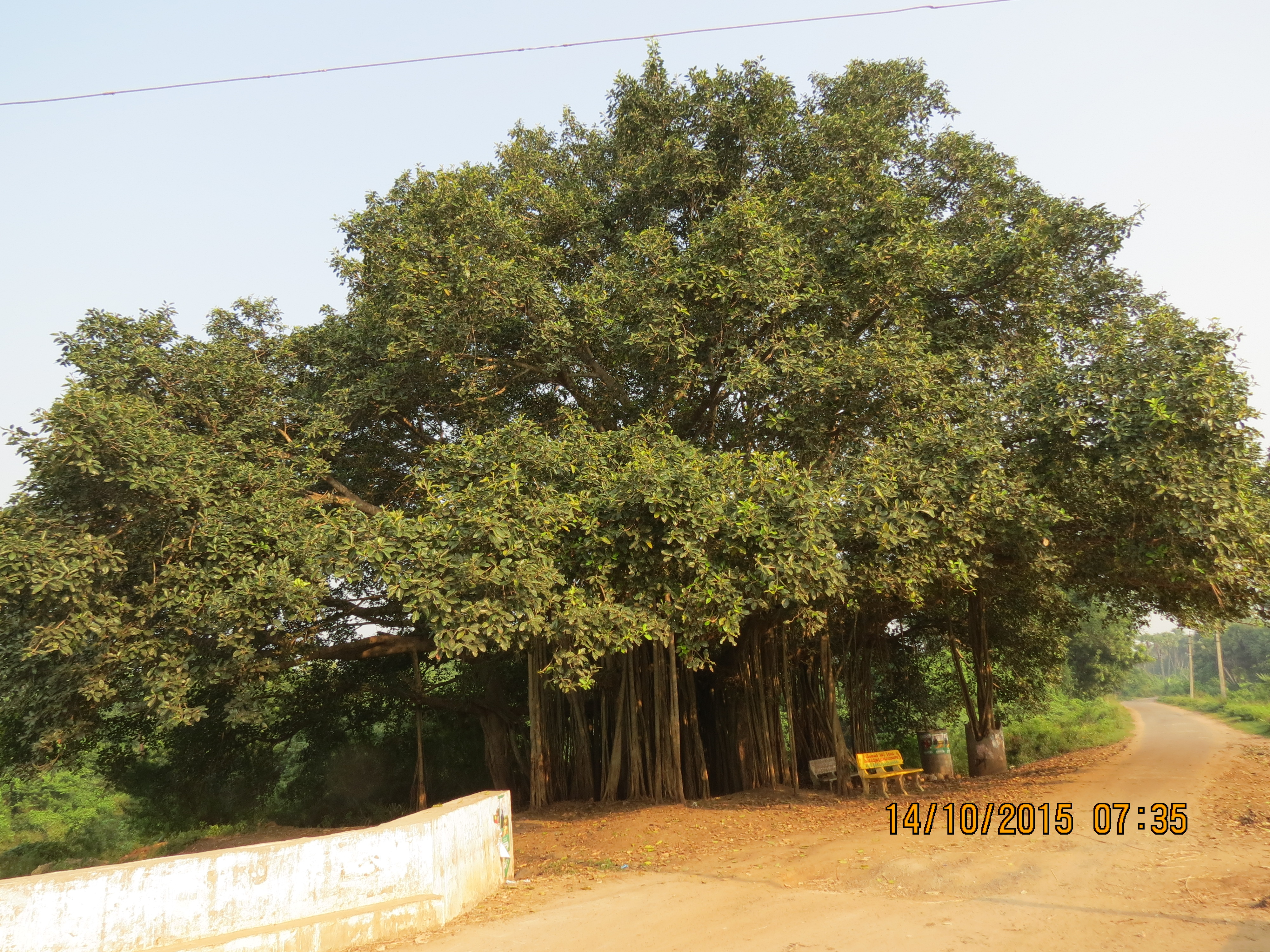 banyan tree (50 yrs old)